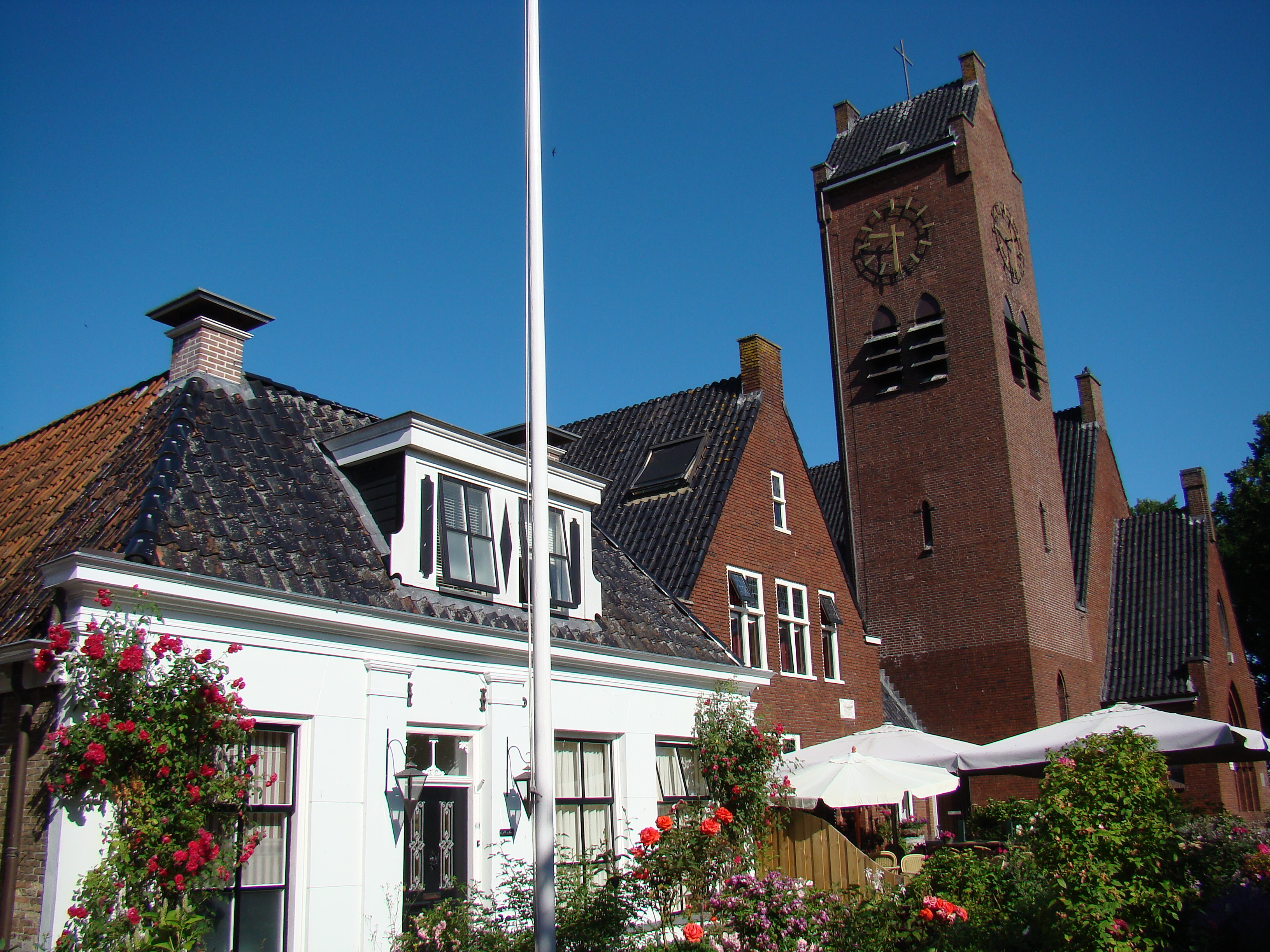 Impressions of Sloten, Netherlands